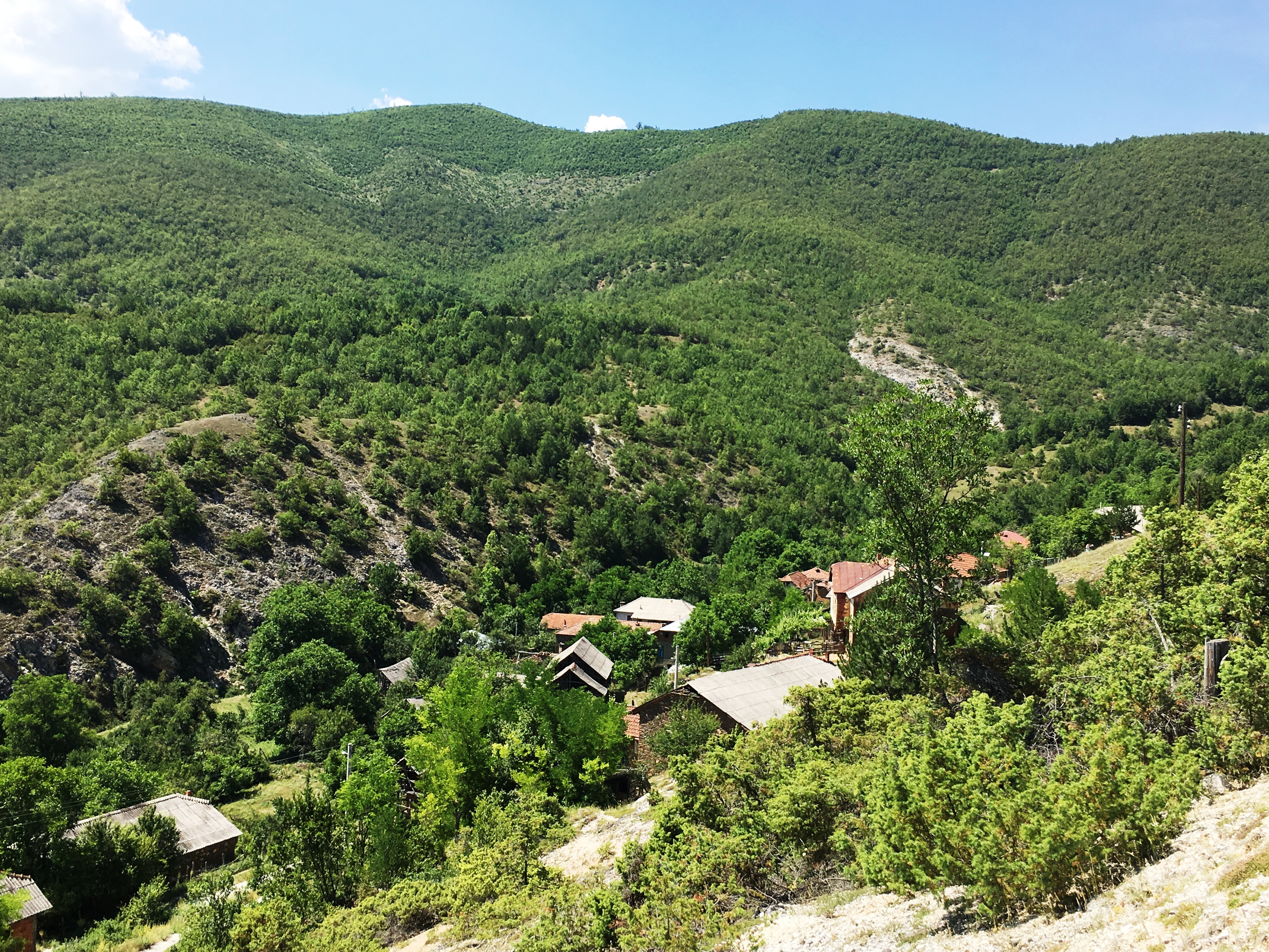 View of the village of Gorni Manastirec